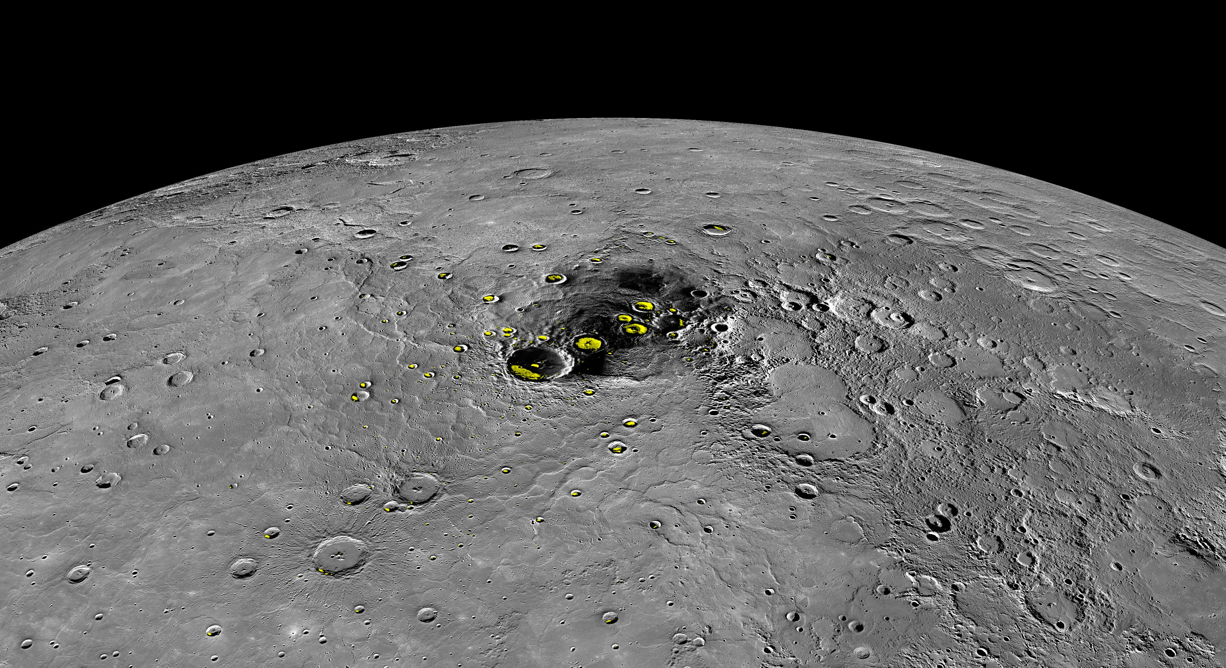 PIA19411: Water Ice on Mercury This orthographic projection view provides a look at Mercury's north polar region. The yellow regions in many of the craters mark locations that show evidence for water ice, as detected by Earth-based radar observations from Arecibo Observatory in Puerto Rico. MESSENGER has collected compelling new evidence that the deposits are indeed water ice, including imaging within the permanently shaded interiors of some of the craters, such as Prokofiev and Fuller. Instrument: Mercury Dual Imaging System (MDIS) Arecibo Radar Image: In yellow (Harmon et al., 2011, Icarus 211, 37-50) The MESSENGER spacecraft is the first ever to orbit the planet Mercury, and the spacecraft's seven scientific instruments and radio science investigation are unraveling the history and evolution of the Solar System's innermost planet. In the mission's more than four years of orbital operations, MESSENGER has acquired over 250,000 images and extensive other data sets. MESSENGER's highly successful orbital mission is about to come to an end, as the spacecraft runs out of propellant and the force of solar gravity causes it to impact the surface of Mercury in April 2015.